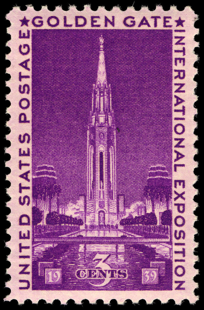 Golden Gate International Exposition 3-cent 1939 issue U.S. stamp. The design shows the 'Tower of the Sun', one of the outstanding architectural features of the exposition, on Treasure Island in San Francisco Bay.